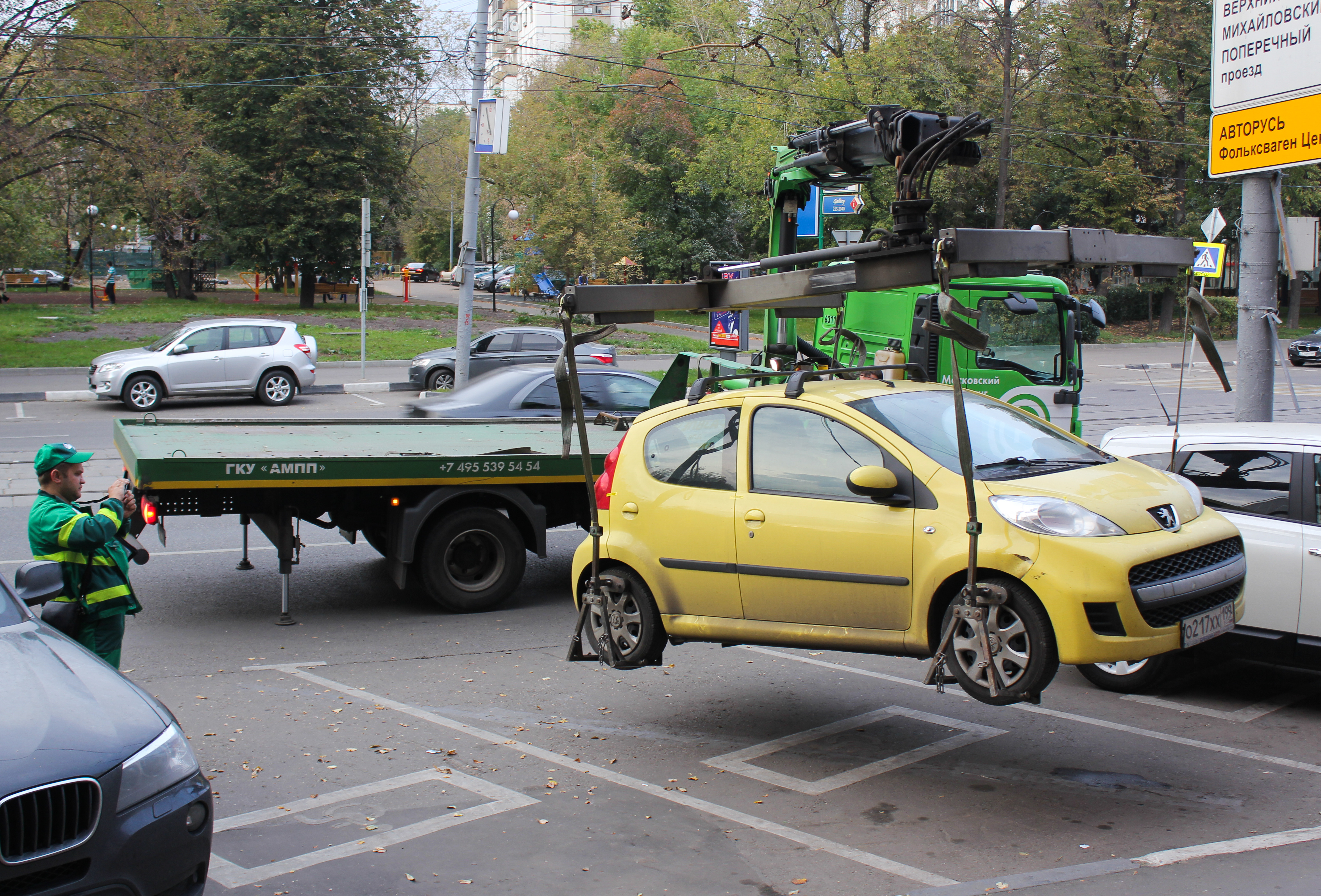 A tow truck removes an illegally parked vehicle in Moscow.